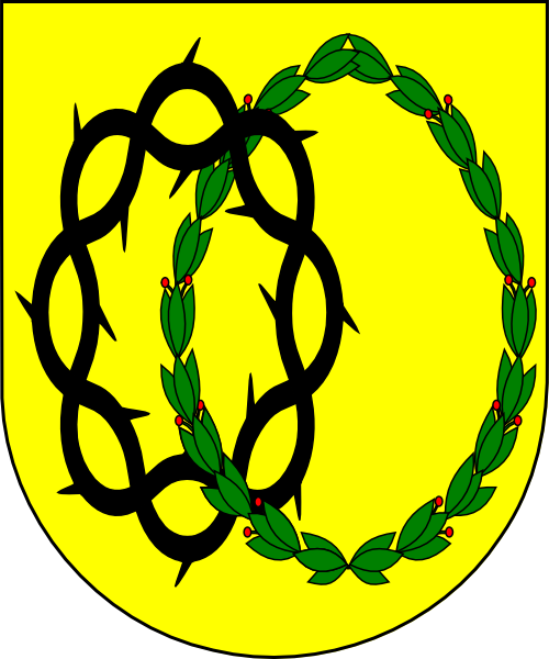 Coat of arms (shield only) of Lajos cardinal Haynald, bishop of Transylvania, Romania (1852 - 1864), archbishop of Kalocsa (1867 - 1891). See also his seal